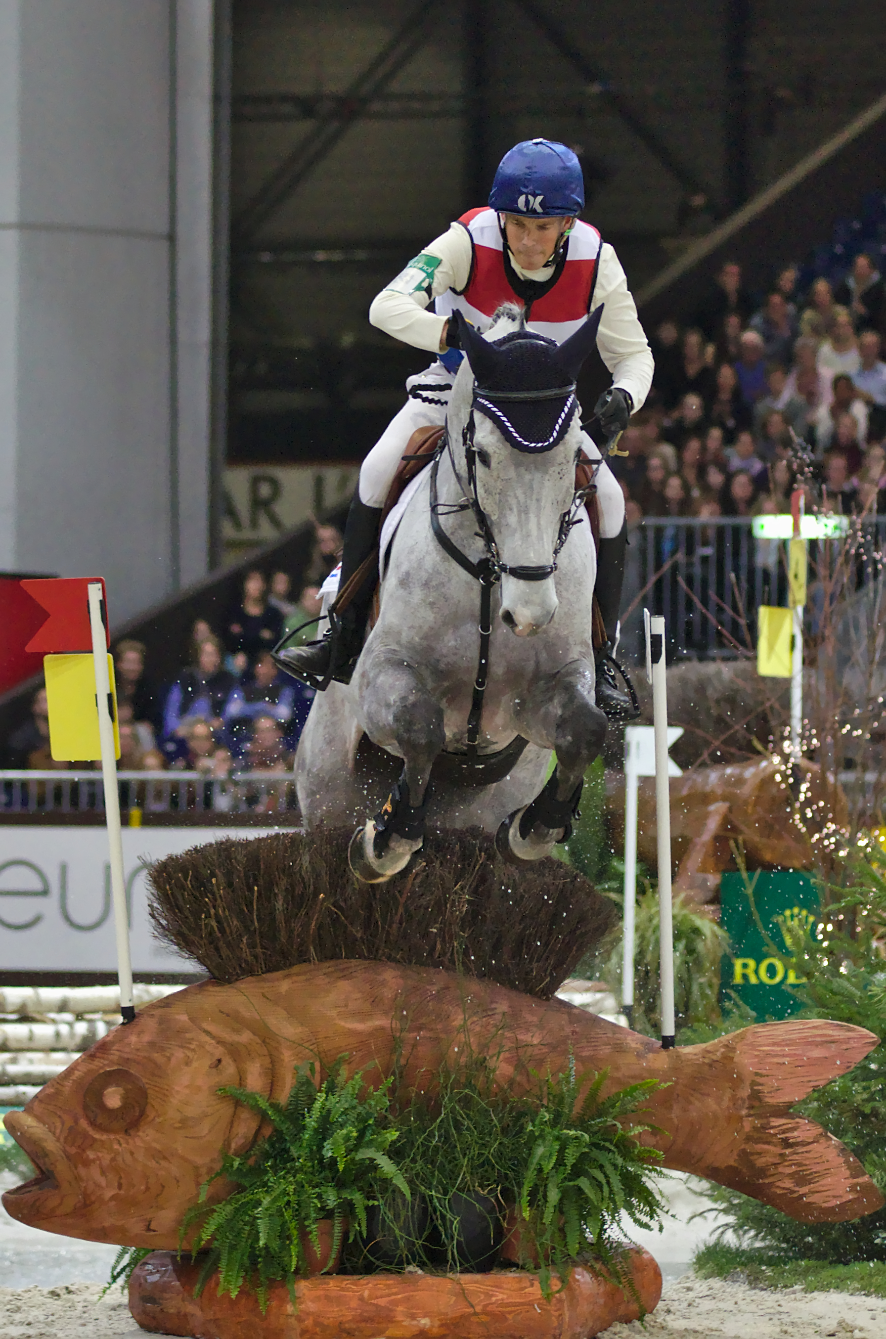 54eme CHI de Genève - 20141213 - Indoor Cross Country - Tim Lips et Bayro